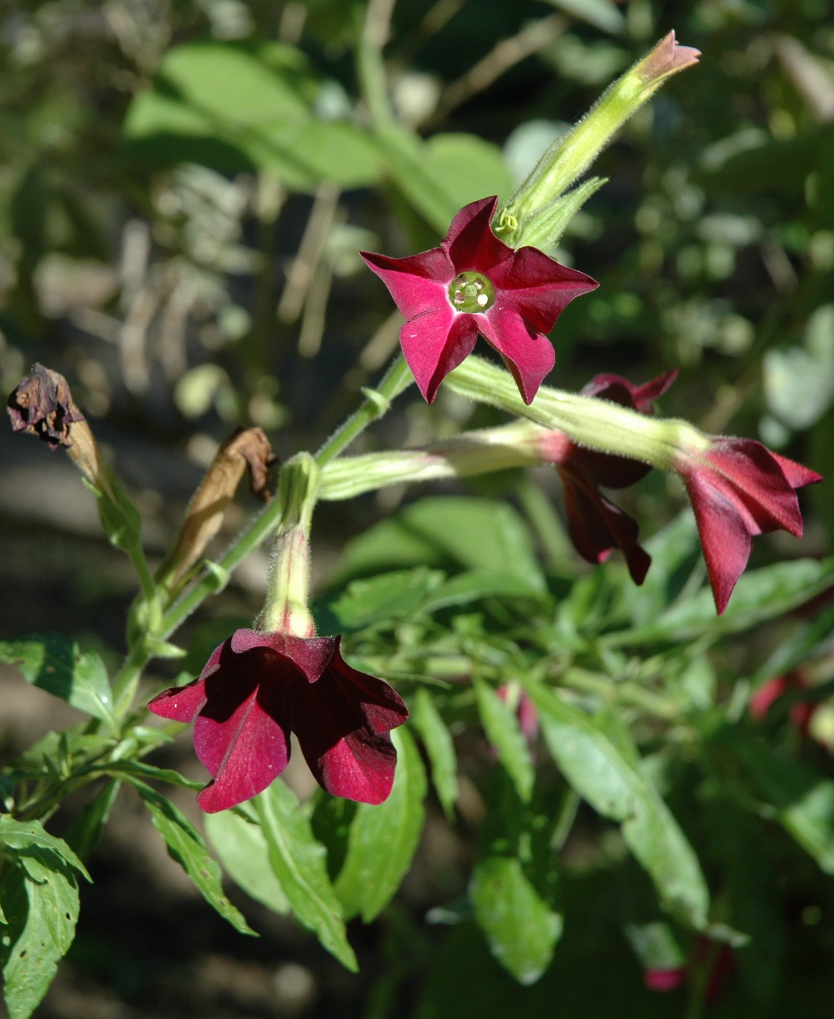 Flowers of Nicotiana alata at Jena Botanical Garden, Germany